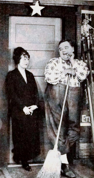 Still from the American comedy film Back Stage (1919) with Molly Malone and Roscoe "Fatty" Arbuckle, on page 114 of the July 26, 1919 Exhibitors Herald.